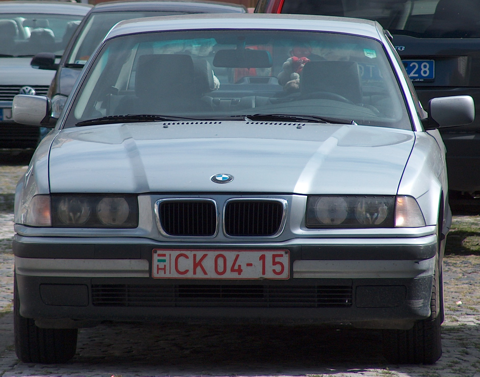 BMW 3 of the Consular Corps in Hungary with Consular license plates, CK = Consular Corps, 04 = Germany